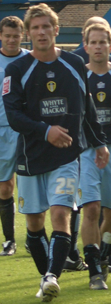 Richard Cresswell. Image cropped from original at flickr.